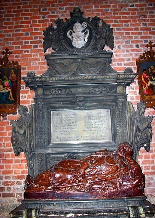 St. John Cathedral Church in Wrocław